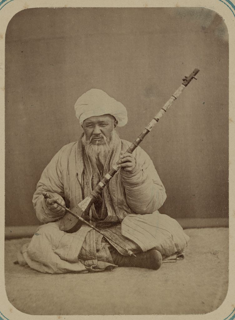 A traditional Central Asian musician playing the bowed tanbur. Excerpt from original information on LIBRARY OF CONGRESS Title: Obshchestvennyia uveseleniia Sredneaziiatsev. Muzykanty. "Mashki kamancha"Title Translation: Pastimes of Central Asians. Musicians. Practicing the kamanchaDate Created/Published: [between 1865 and 1872]Medium: 1 photographic print : albumen.Summary: Photograph shows a man playing a long-necked stringed instrument.......